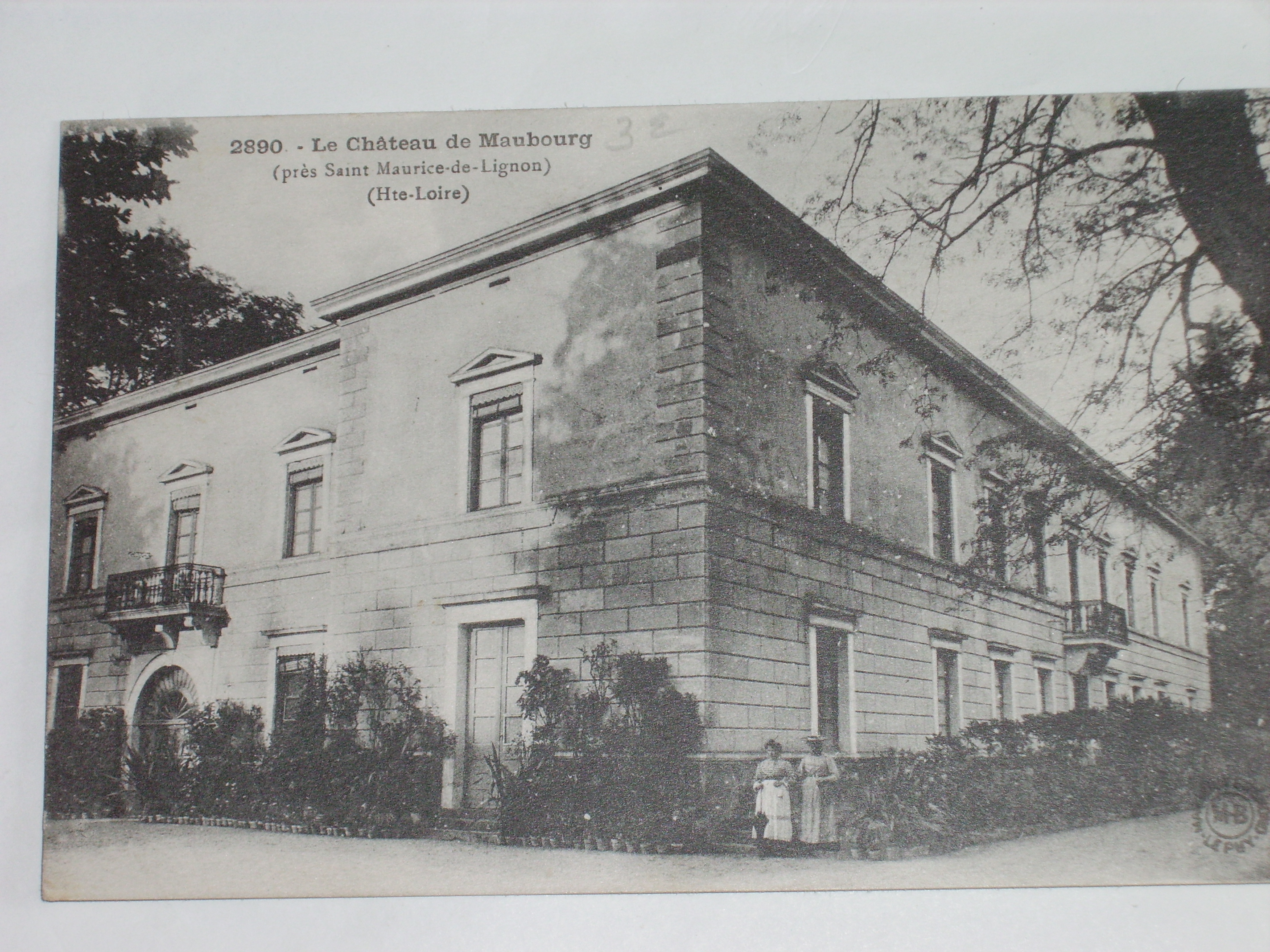 A photo of and old postcard of Maubourg castle